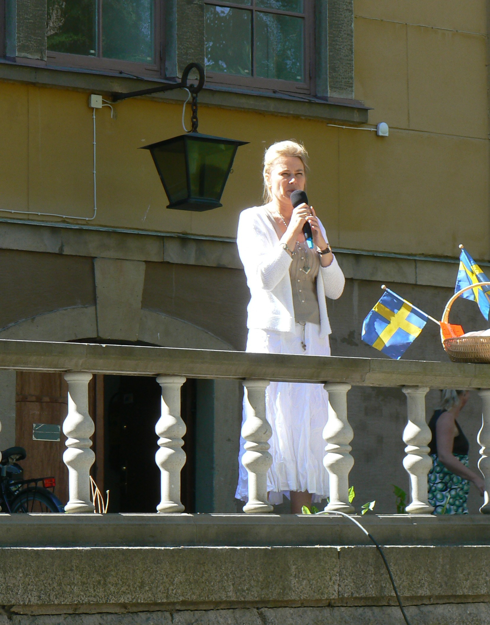 Ann-Cathrine Hjerdt, mayor of Linköping, Sweden.